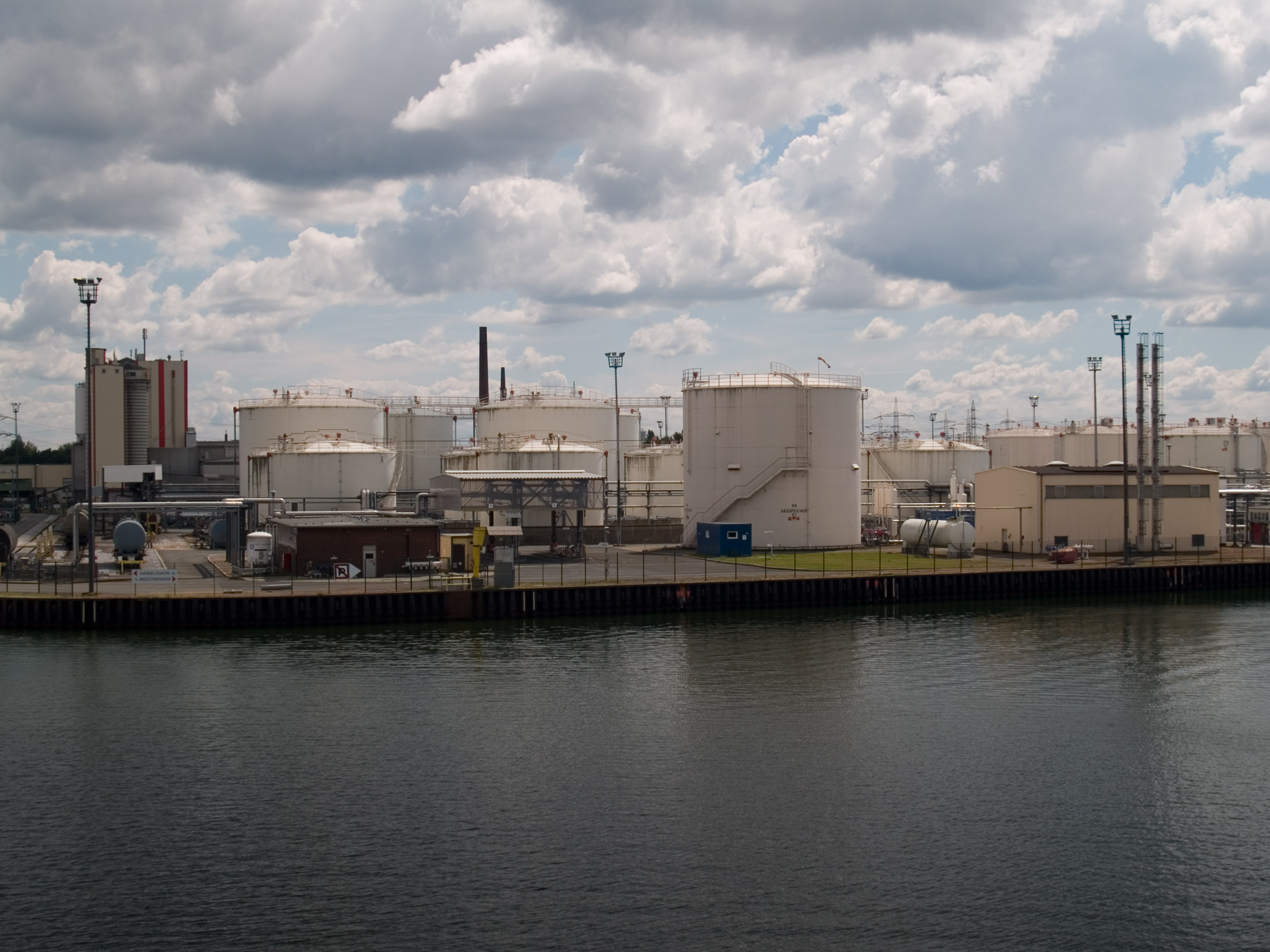 The gas tanks at the industrial part of port of Gelsenkirchen, Germany at the Rhein-Herne-Kanal